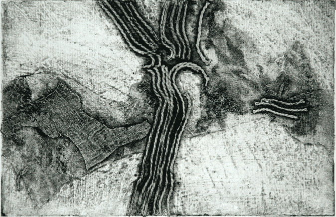 graphic art, structural graphics, author: Jenny Hladíková